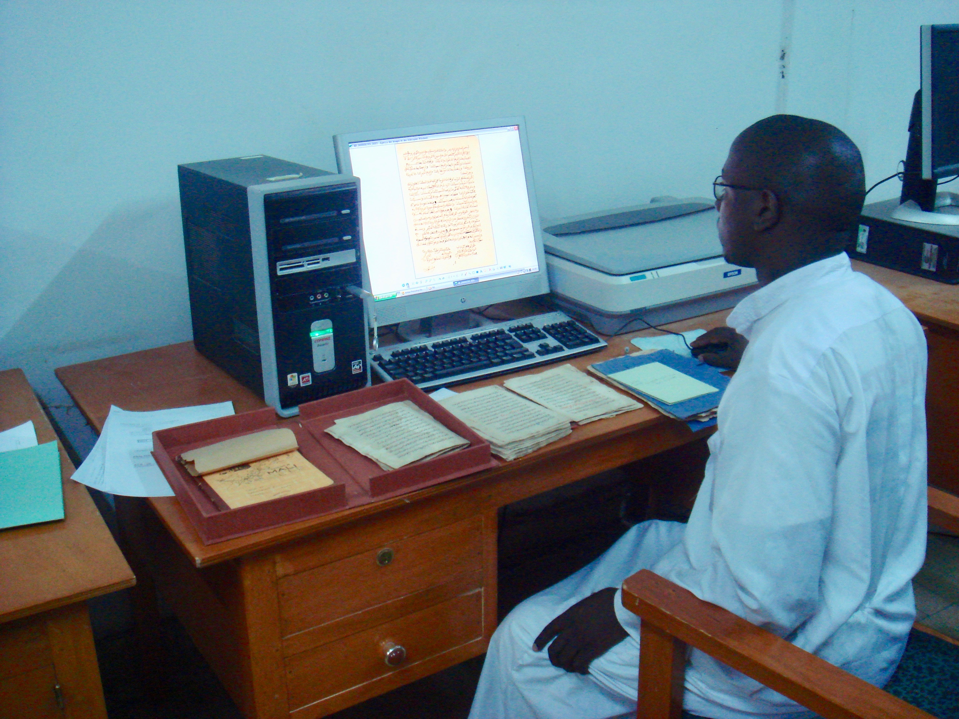 An archivist in the Ahmed Baba Institute of Higher Learning and Islamic Research preserves ancient documents in Timbuktu. This is an image of "African people at work" from Mali